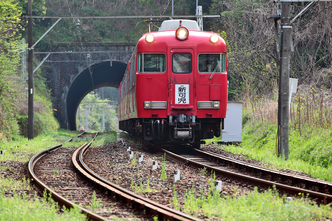 Meitetsu 7700 series EMU ( 7701F + 7715F ), between Zenjino Sta. and Nishi Kani Sta.